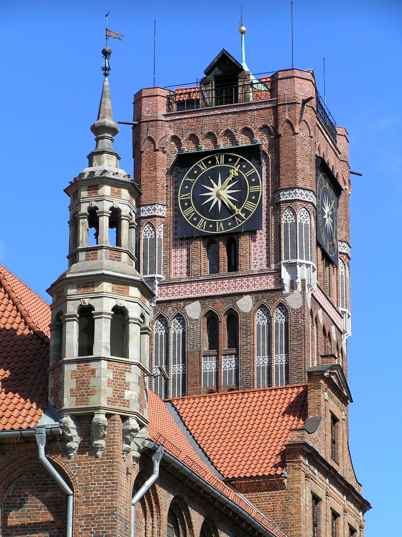 Toruń, Old-Town Hall